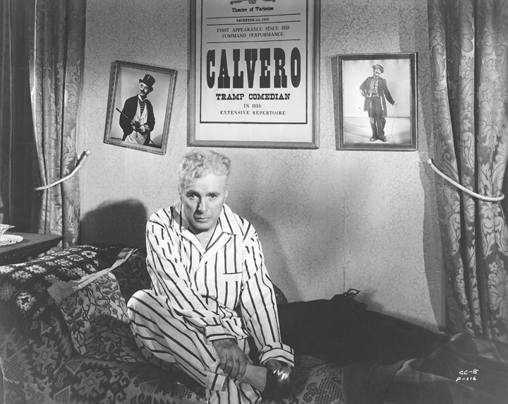 Publicity still for the Charlie Chaplin film Limelight (1952) Such images were taken on set during filming, or as part of an organized photo-shoot, by a studio photographer. They were then disseminated to the media and the public to promote the film (see Film still). This is definitely a promotional still because there is a stock code in the bottom right corner. The image on this page shows what the whole still would have looked like. Public domain explanation If the image was copyrighted, under the terms of the 1909 Copyright Act it would have had to be renewed 28 years after publication. A search with the United States Copyright Records for "Limelight" and "Chaplin" ([1]) shows that the film and music had their copyright renewed, but there is no evidence that any promotional material for the film was renewed.